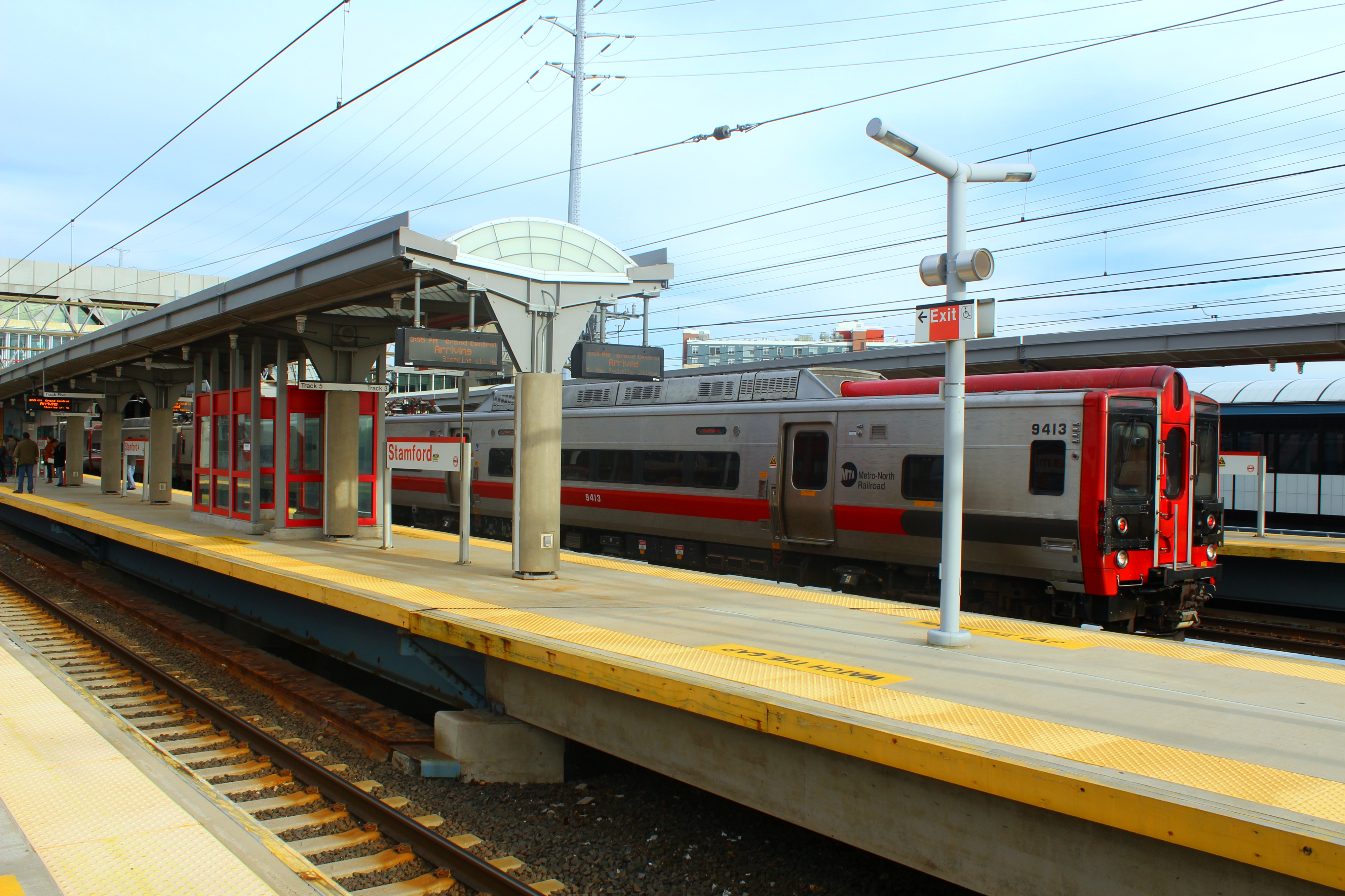 Photo of the Stamford Transportation Center platforms and tracks facing south-east. A Metro-North M8 train is leaving the station, headed towards Manhattan.